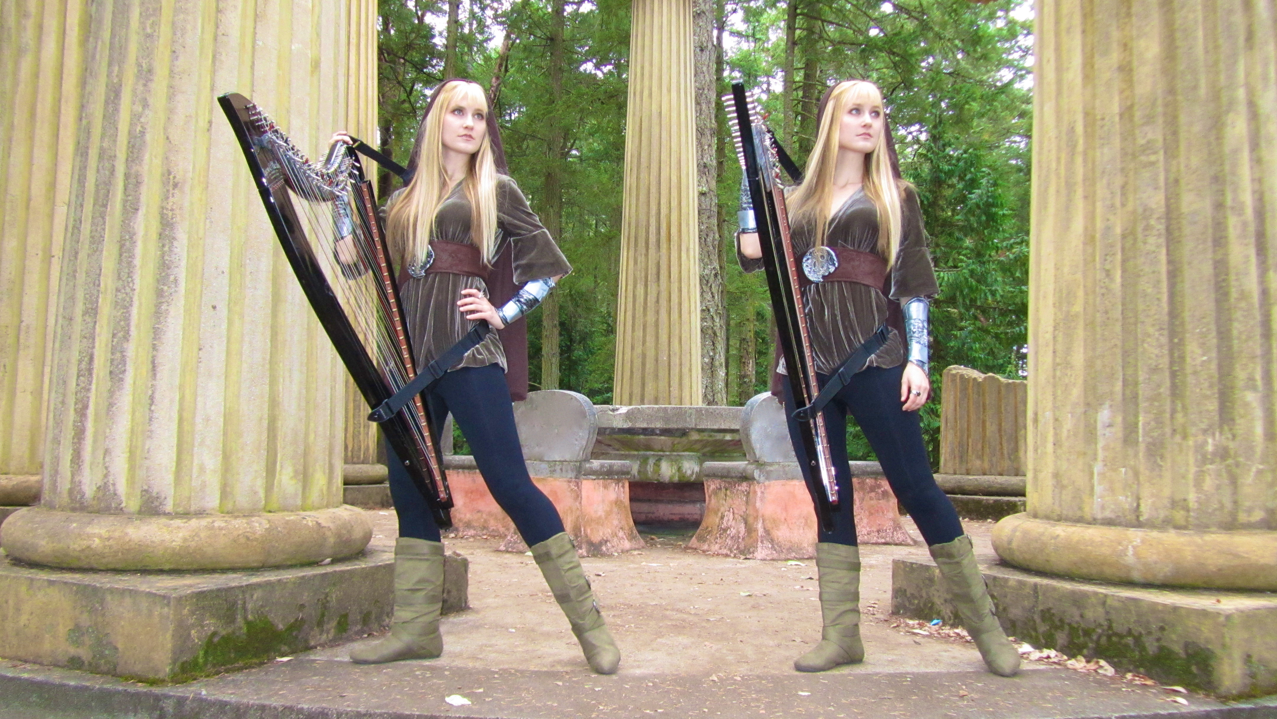 The photo shows Camille and Kennerly Kitt dressed as elves for a promotional shot during the filming of their The Lord of the Rings medley, specifically The Fellowship of the Ring, from the movie soundtrack.